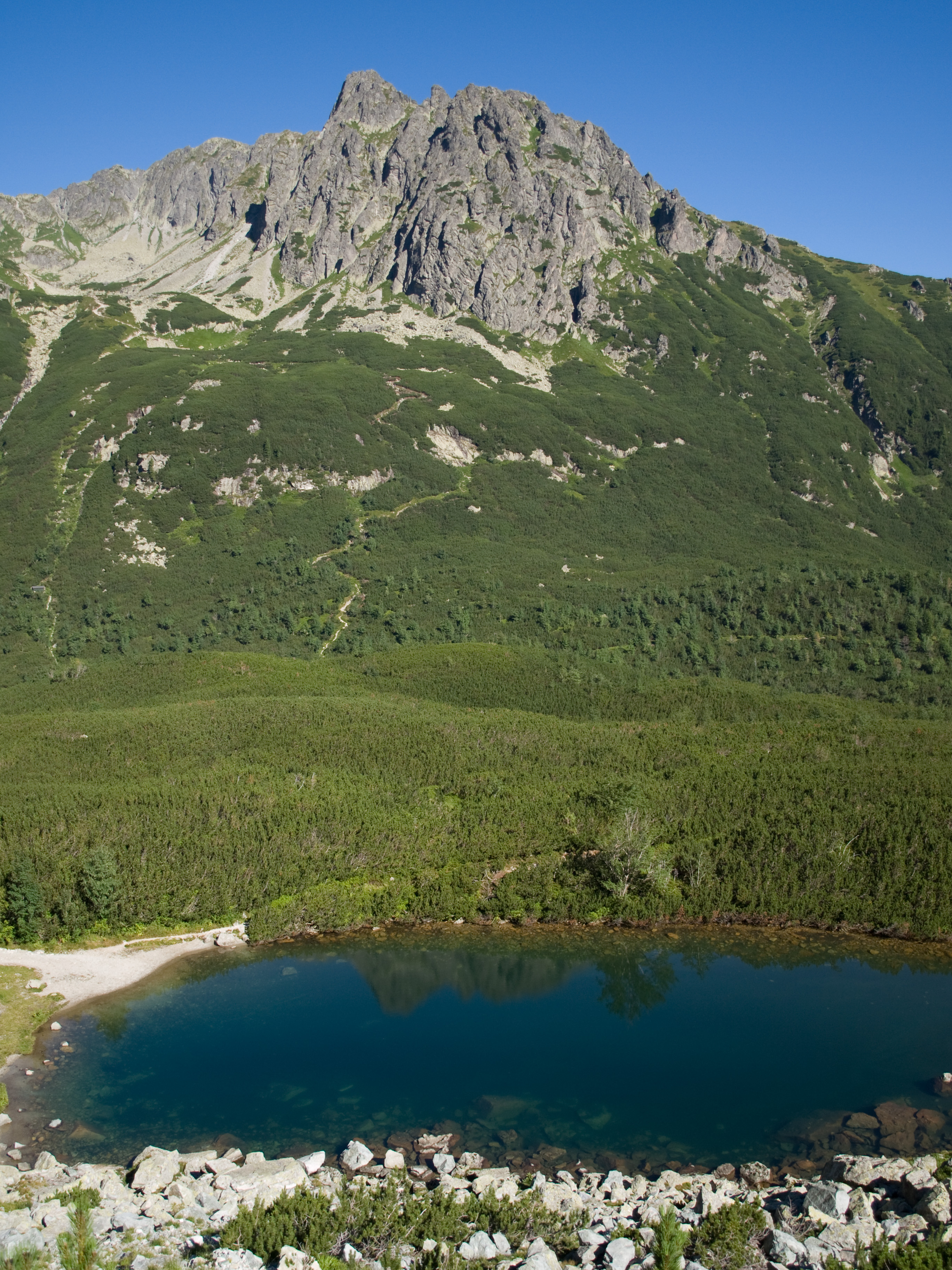 Čierne Kežmarské pleso, in the background Kozí štít